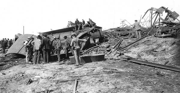 A burned Pullman car from the Esmond train wreck